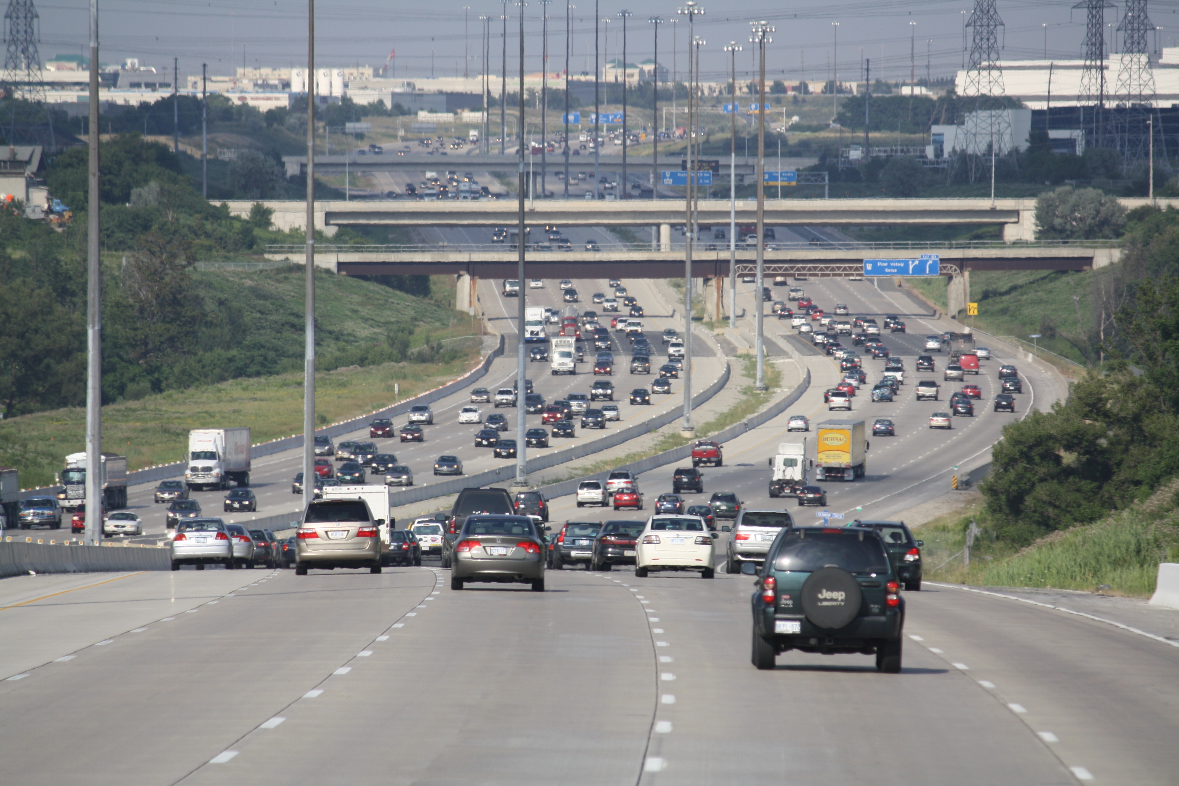 Overview of Highway 407 north of Toronto.